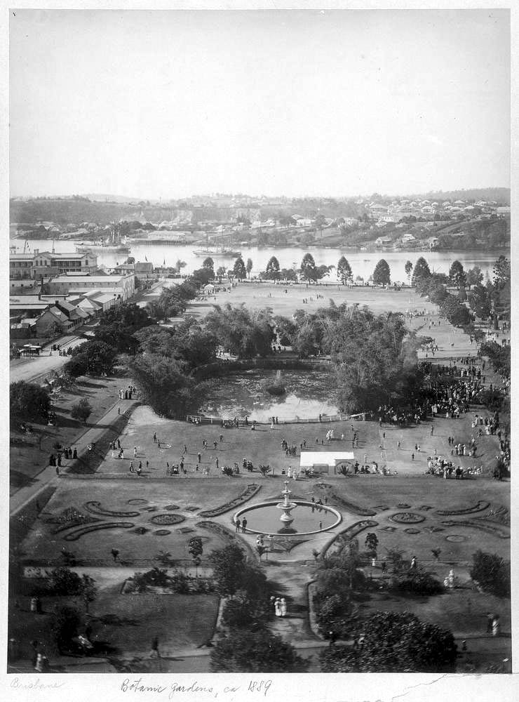 Portrait view of Brisbane's Botanic Gardens from Parliament House to the Brisbane River, ca. 1889